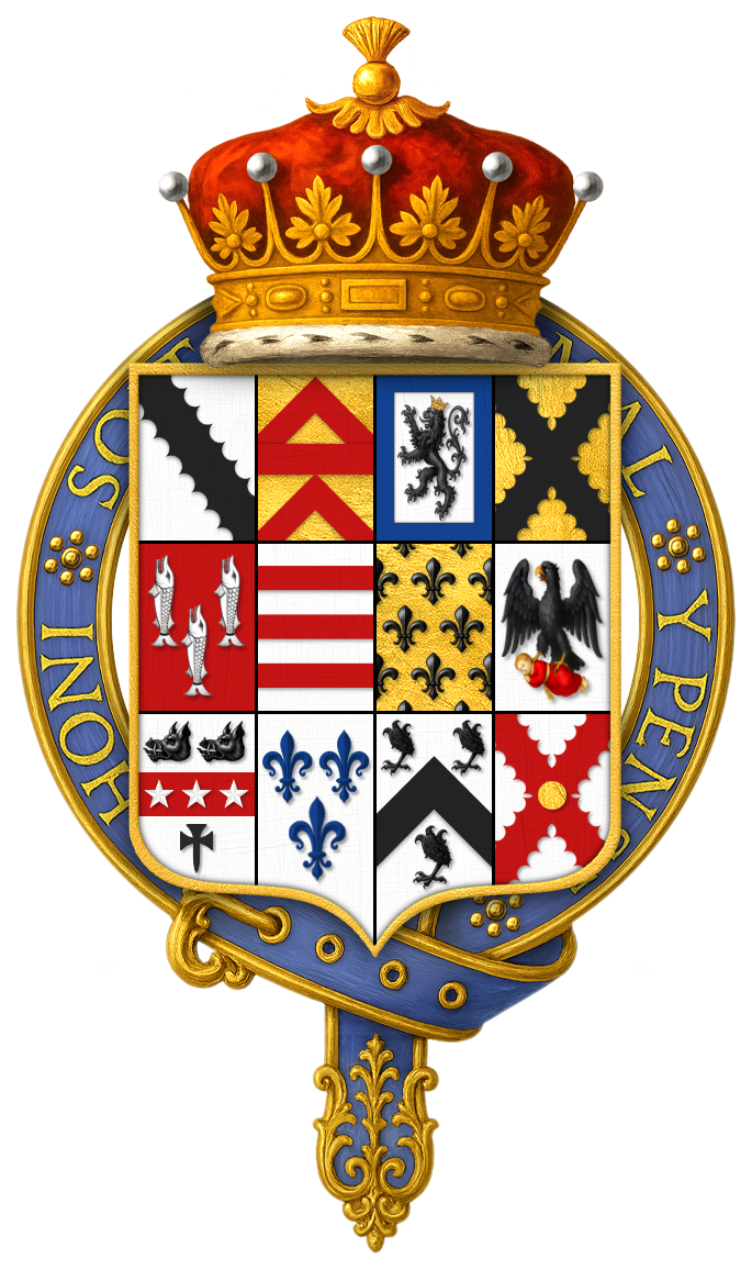 Quartered arms of Sir Robert Radclyffe, 5th Earl of Sussex, KG